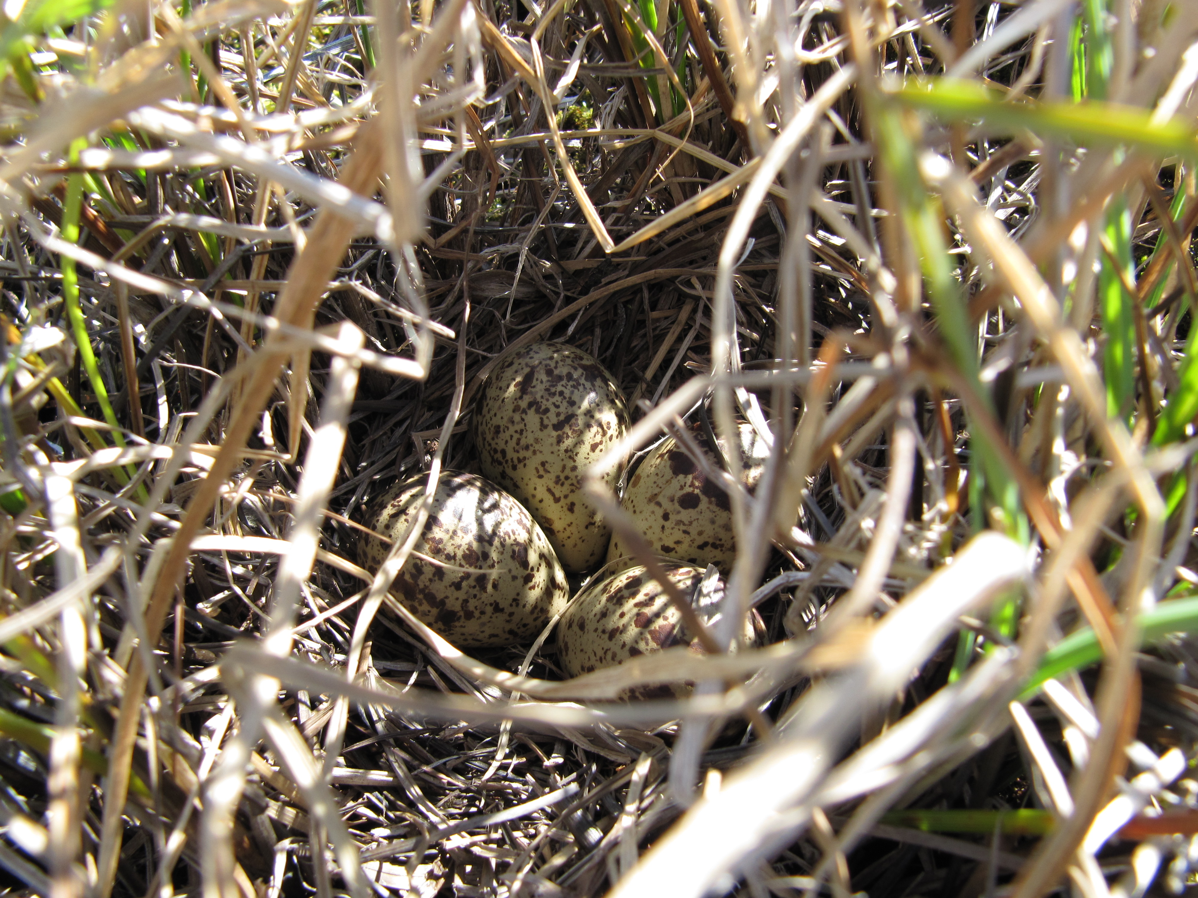 Photo of Tringa totanus nest in Vuomakasjärvi, Enontekiö, Finland